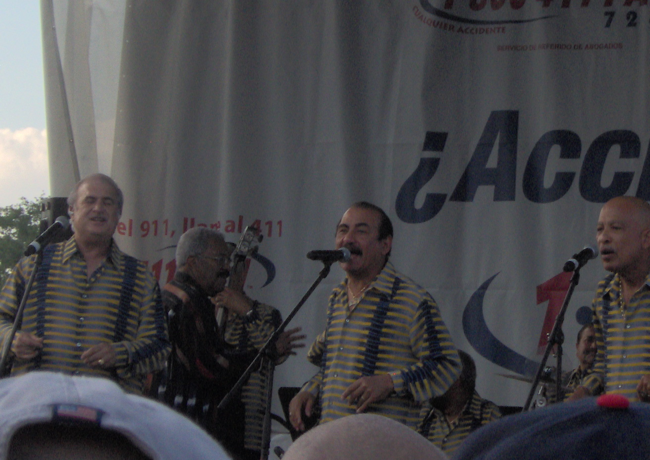 El Gran Combo lead singers performing at the "Festival Medina" in 2011.